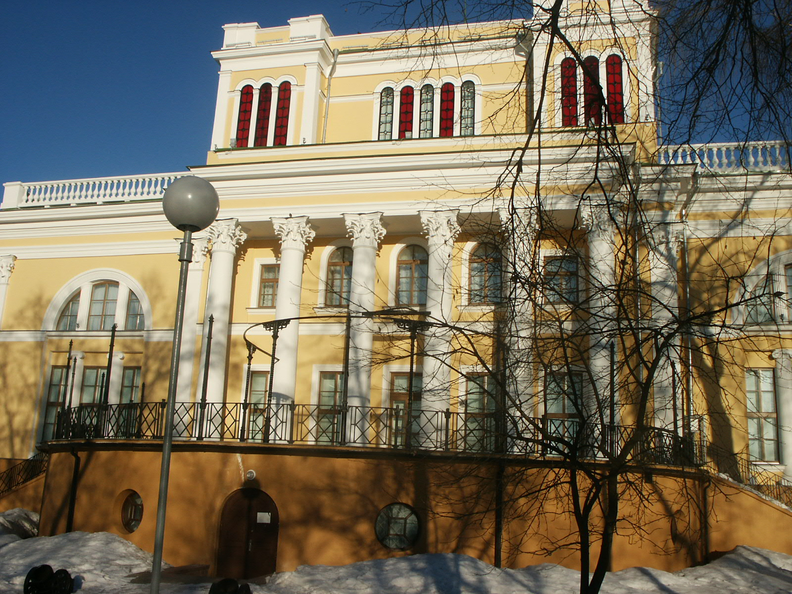 Palace of Pashkevichs, Homel, Belarus.